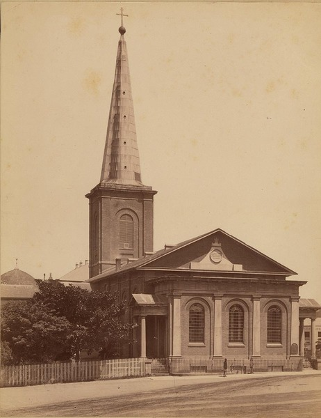 Photograph of St James' Church, Sydney 1880s by Bayliss